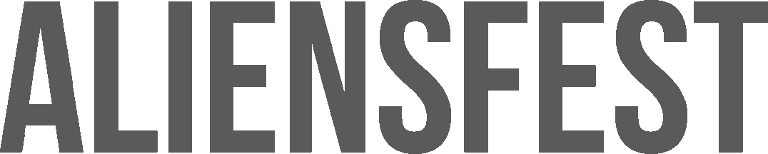 AliensFest Logo